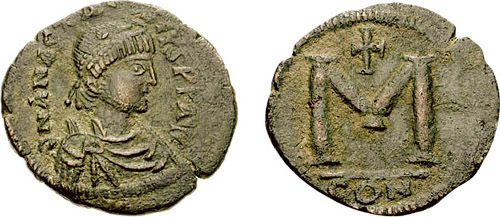 Anastasius I. 491-518 AD. Æ Reduced Follis (8.47 g, 6h). Constantinople mint. Struck circa 498-507 AD. DN ANASTASIVS P P AVG, diademed, draped, and cuirassed bust right, with fringe of beard along chin Large M; cross above; CON. DOC I 16; Metcalf, Origins, 208; MIB I 22; SB 14.